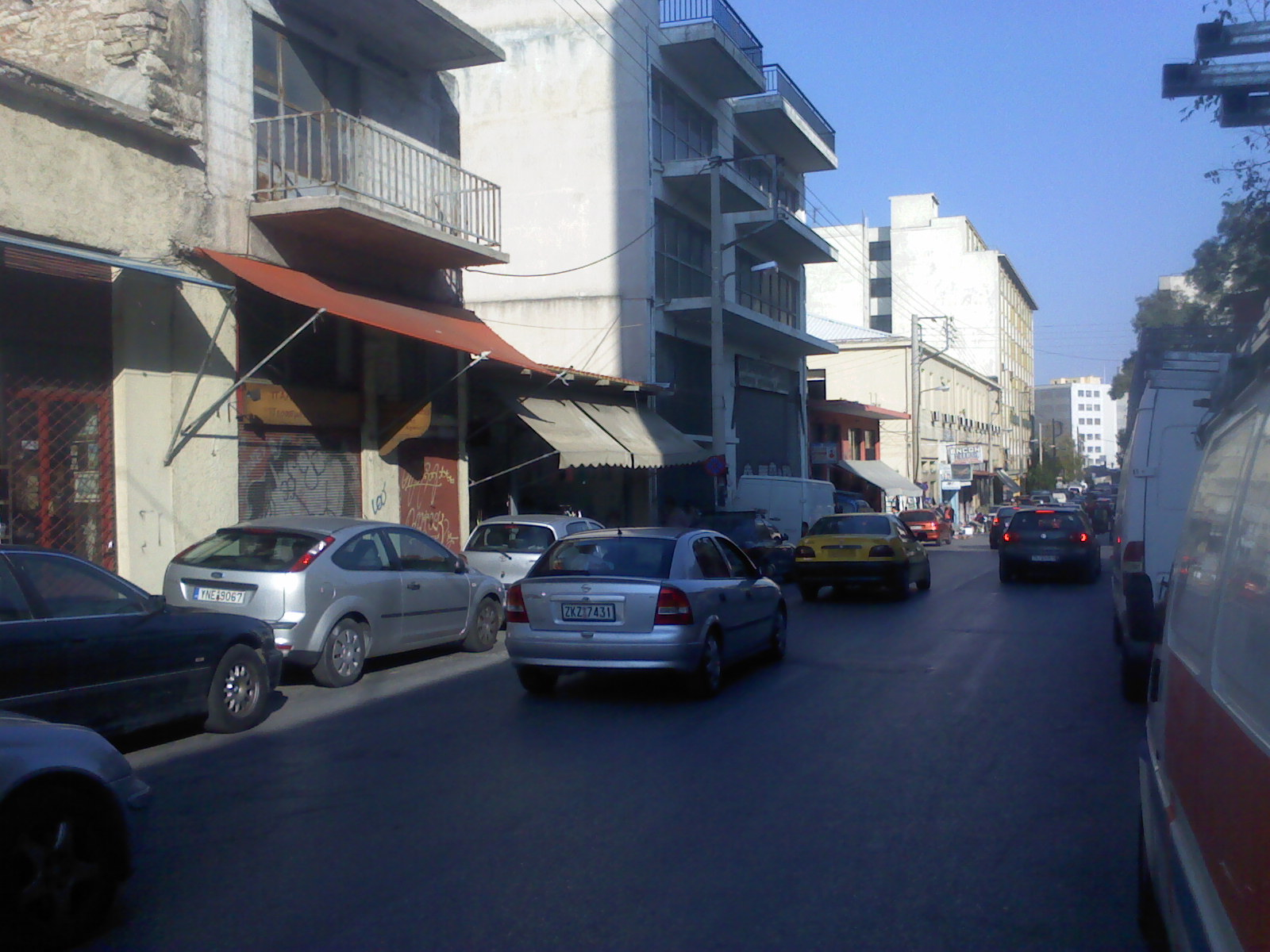 Rue Alipedou Paliatzidika